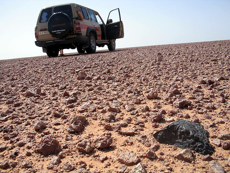 HaH 336, H4/5. Stone meteorite in find situation in the Hammadah al Hamra in Libya